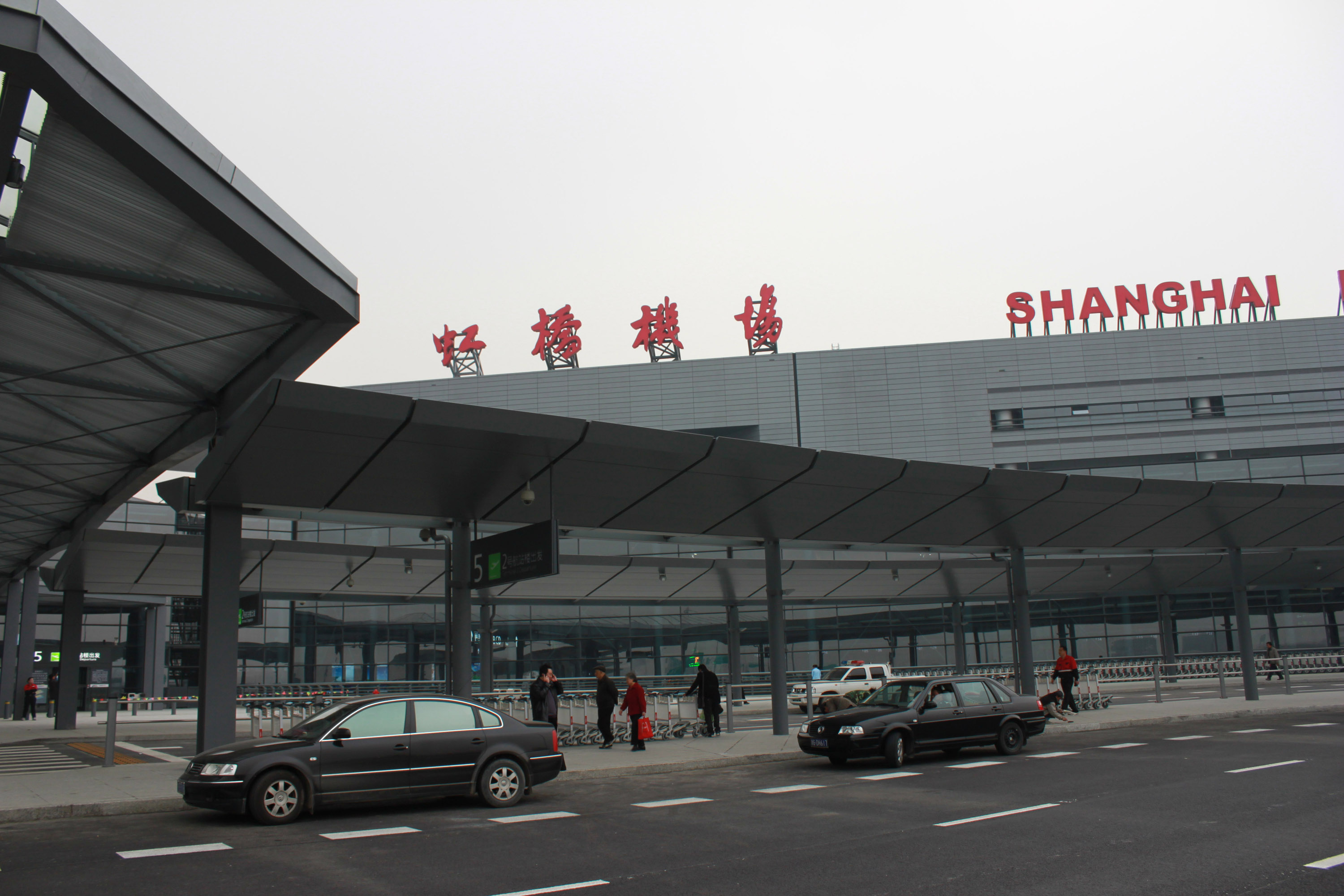 Shanghai Hongqiao Airport Terminal 2